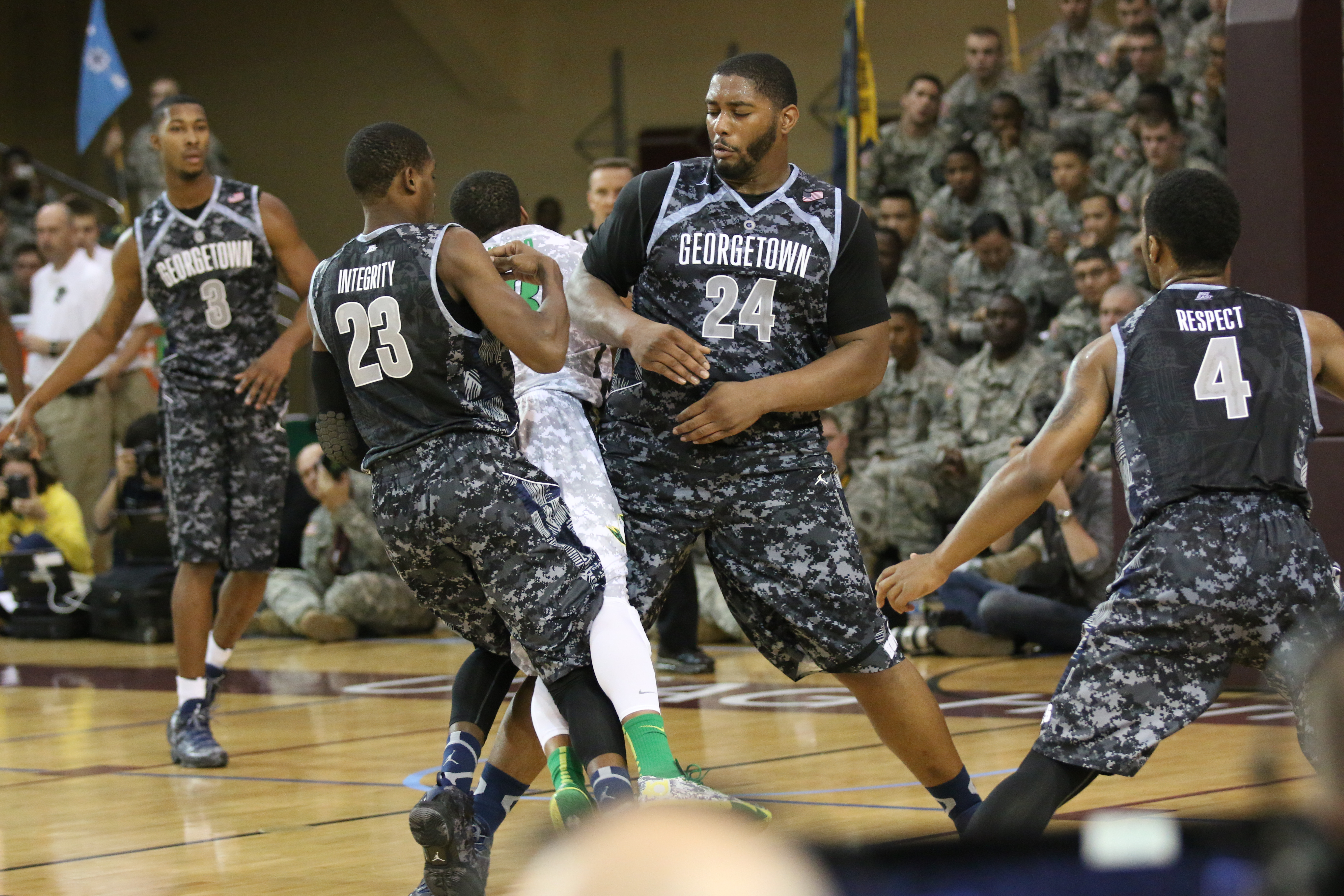 Joshua Smith and Elgin Cook collide during the 2013 Armed Forces Classic at Camp Humpreys in South Korea.